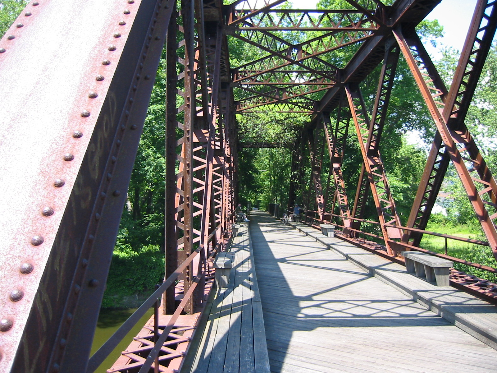 This is where the rail trail crosses the Wallkill River north of New Paltz, NY. A great place to stop for lunch and enjoy the view. I took this picture and grant Wikipedia full permission to use it.